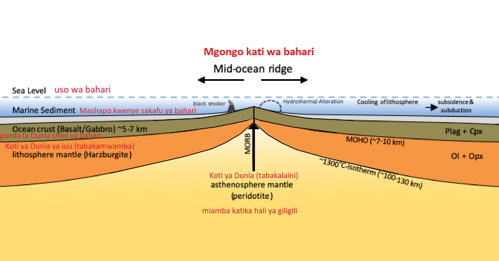 A version of with Swahili text